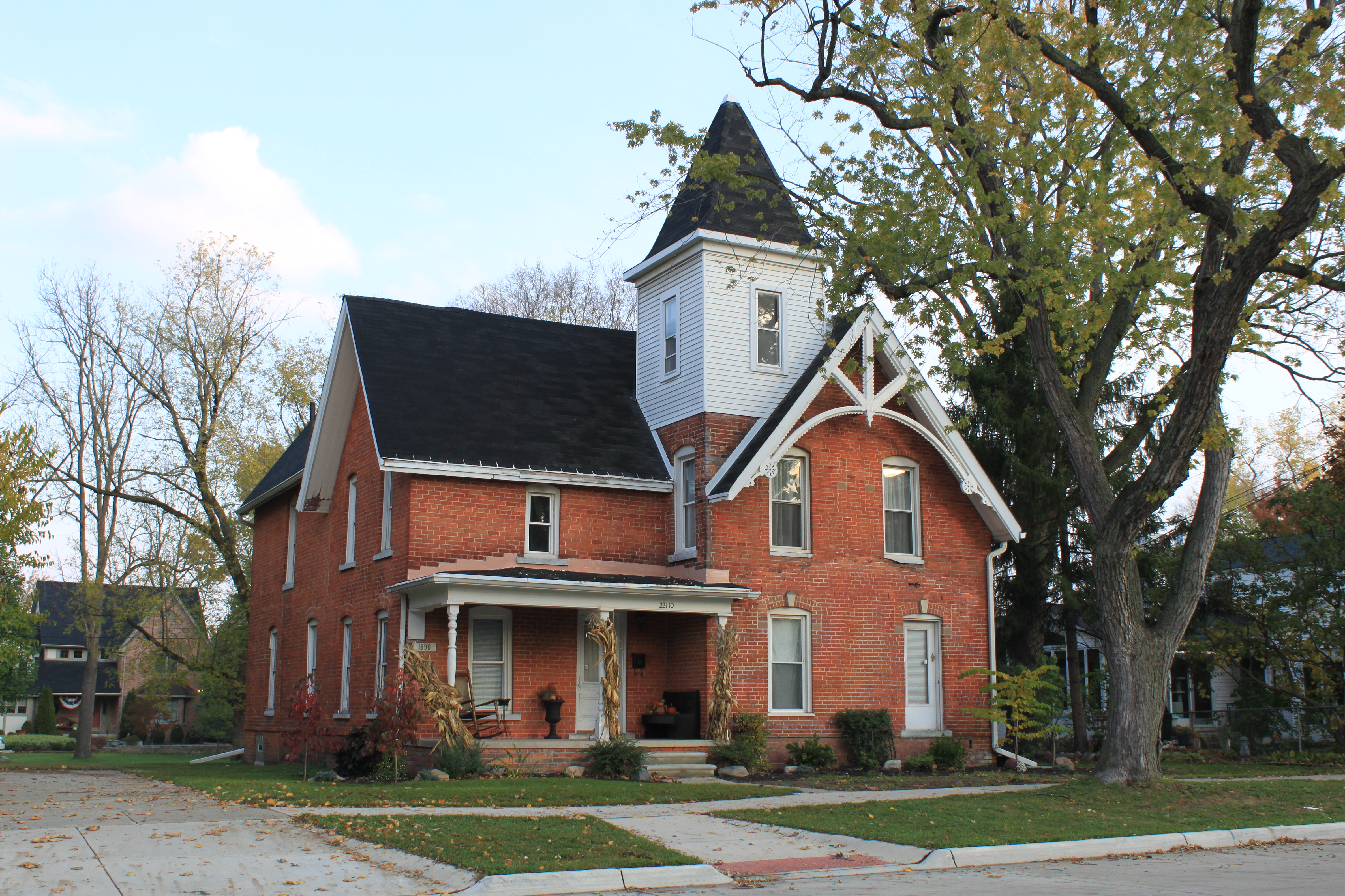 The Lapham Home historic site, 22110 Morley Avenue, Dearborn, Michigan, built c. 1890-1 The house is a Registered Michigan State Historic Site.